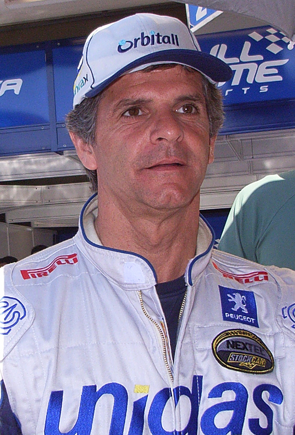 Chico Serra (Full Time Competições) at Stock Car Brasil in 2007.